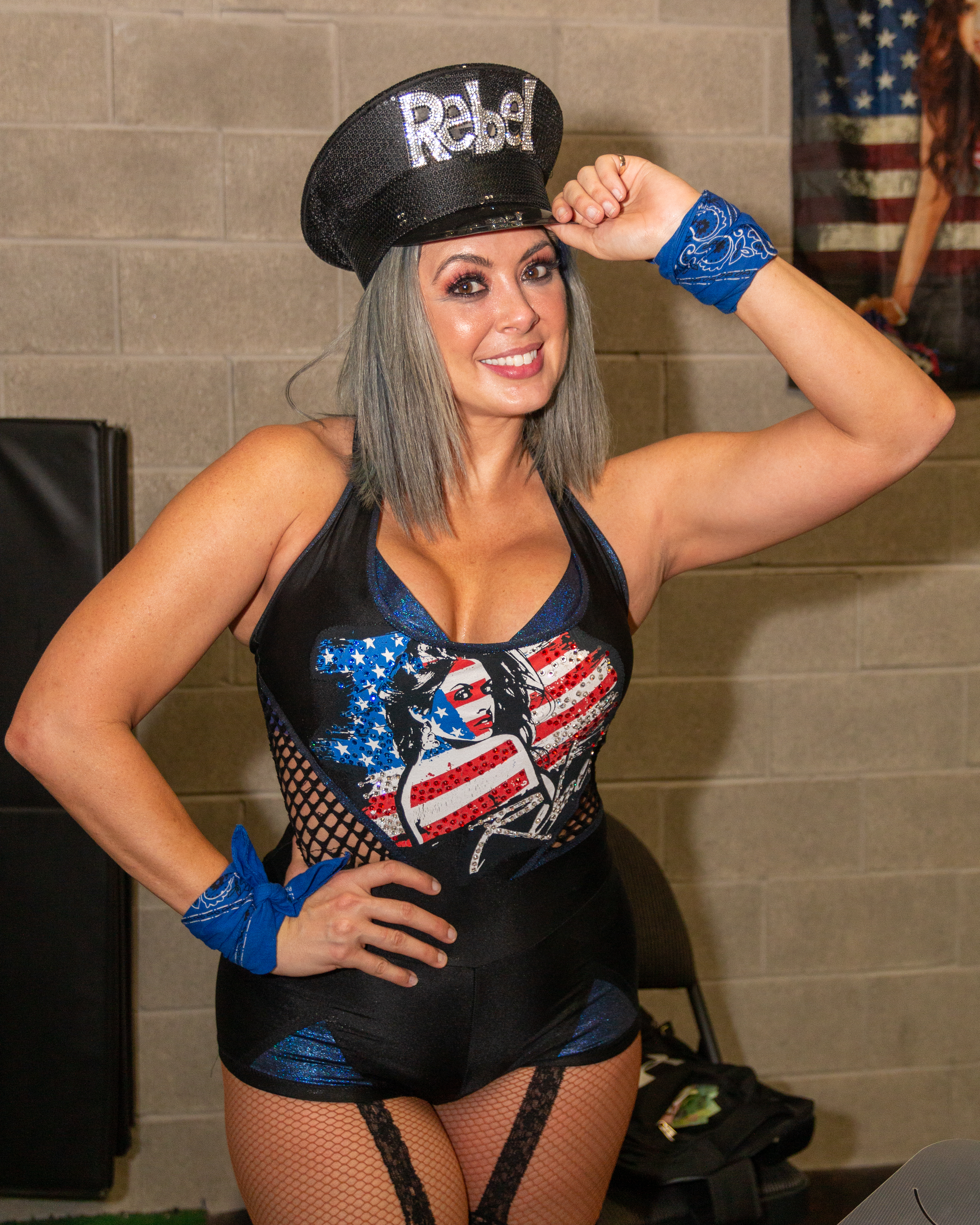 Independent wrestler Rebel (real name Tanea Brooks) post-show at a show in Mississauga, ON in September 2019